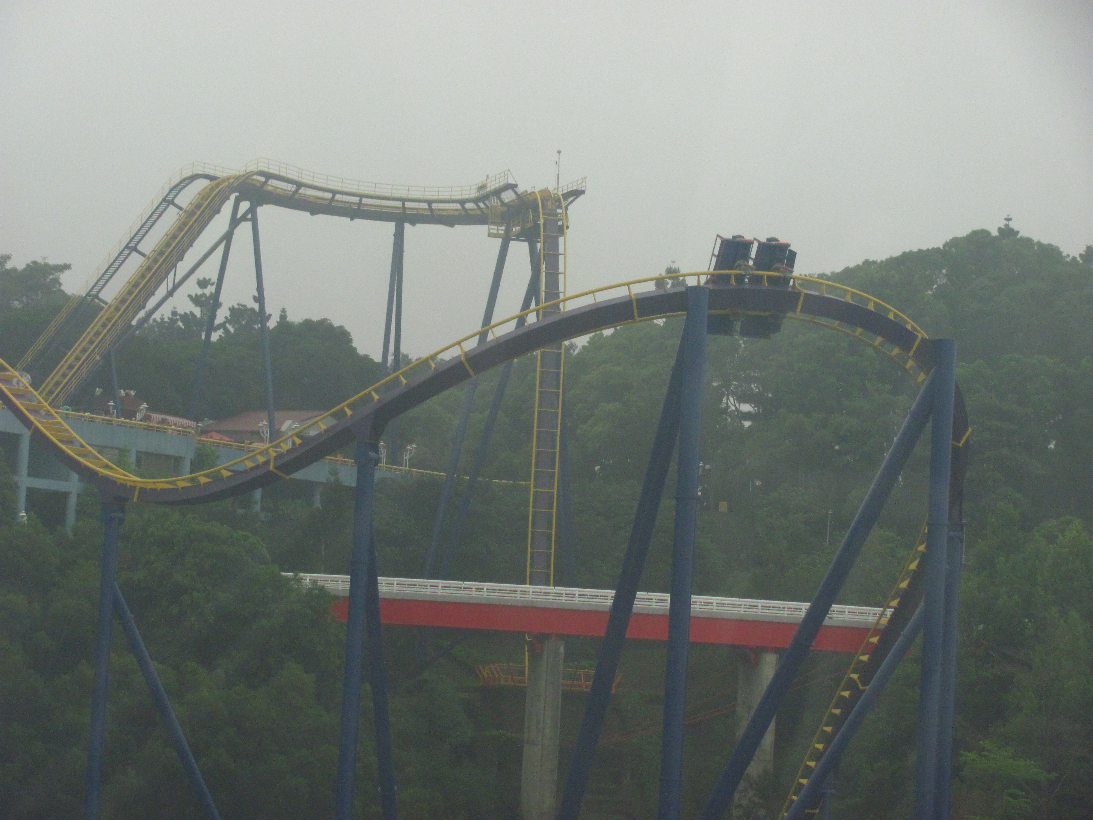 Diving Machine G5, Janfusun Fancyworld, Taiwan